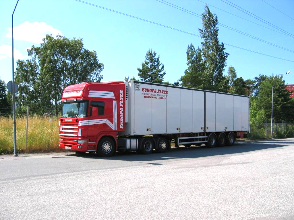 Truck with trailer owned and operated by Europa flyer in Helsingborg, Sweden. Photo in July 2005 in Stockholm. This picture can be found in gallery Scania AB